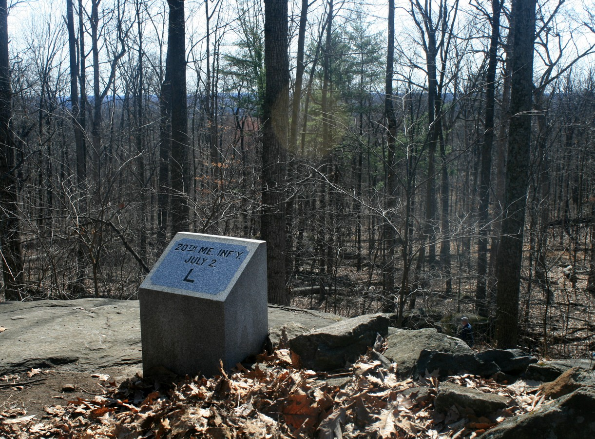 Gettysburg battelfield, Little Round Top, left flank marker of 20th ME infantry.